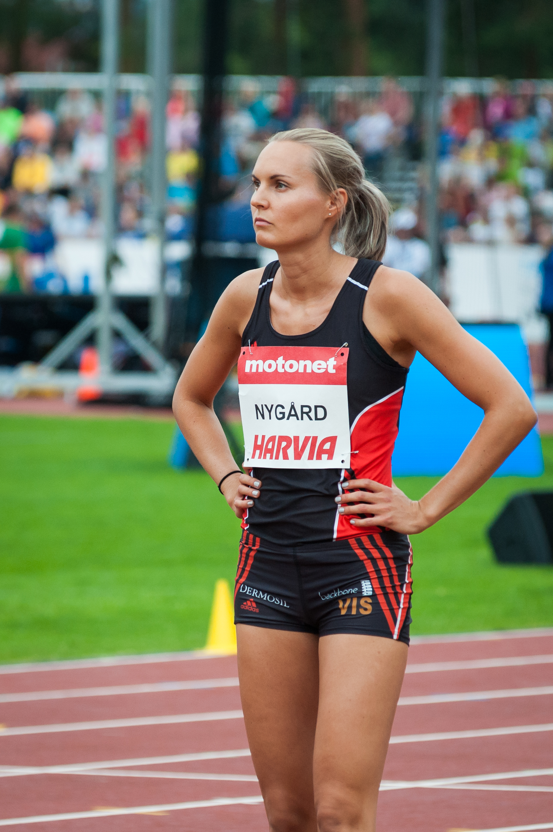 Women's triple jump competition at the 2018 Kalevan Kisat, the Finnish championships in athletics, in Jyväskylä, Finland.